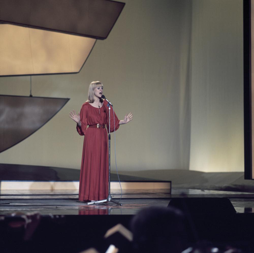 Catherine Ferry at a rehearsal for the Eurovision Song Contest 1976.